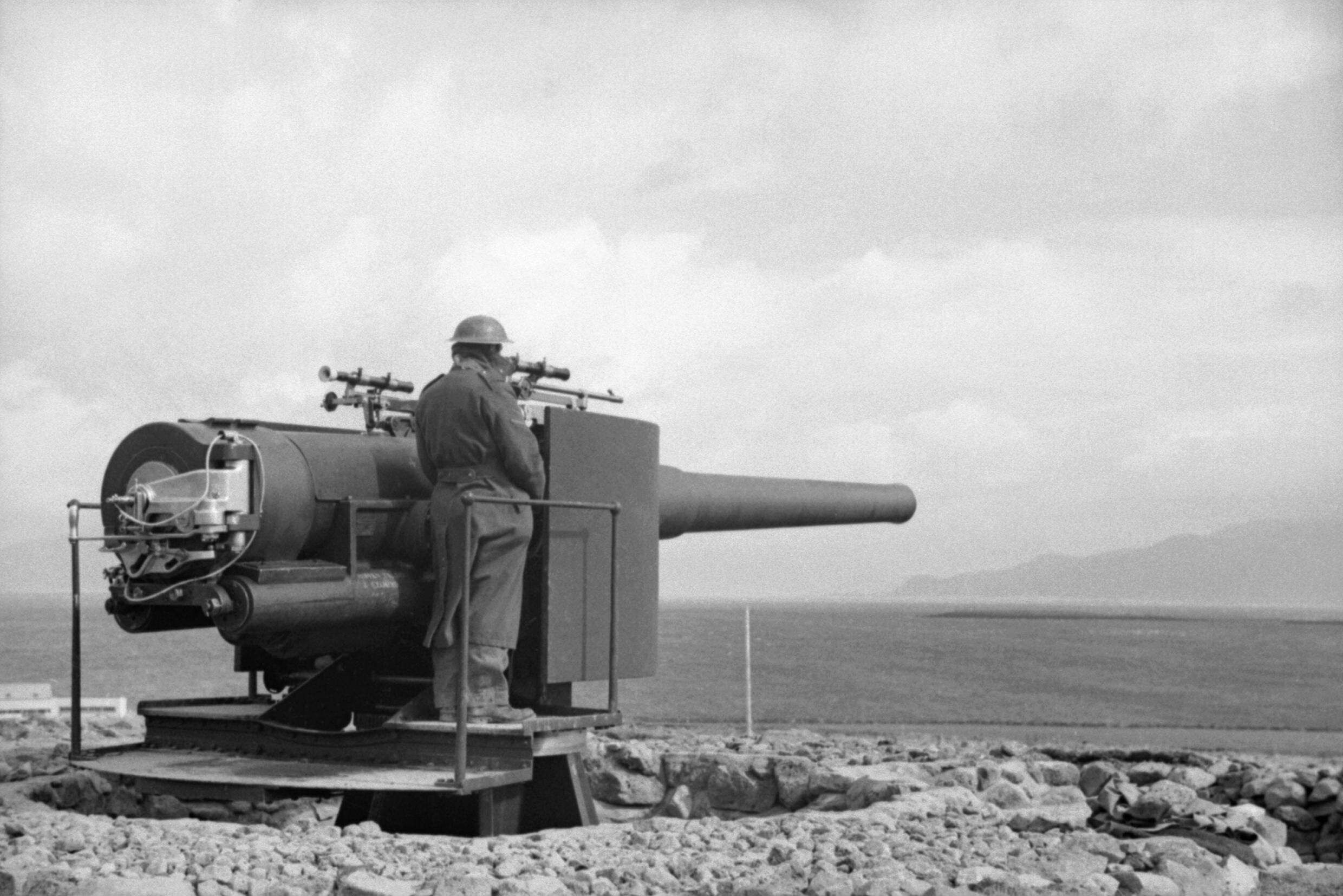 6-inch naval gun overlooking Reykjavik Bay in Iceland, August 1940. 6-inch naval gun overlooking Reykjavik Bay in Iceland, August 1940.